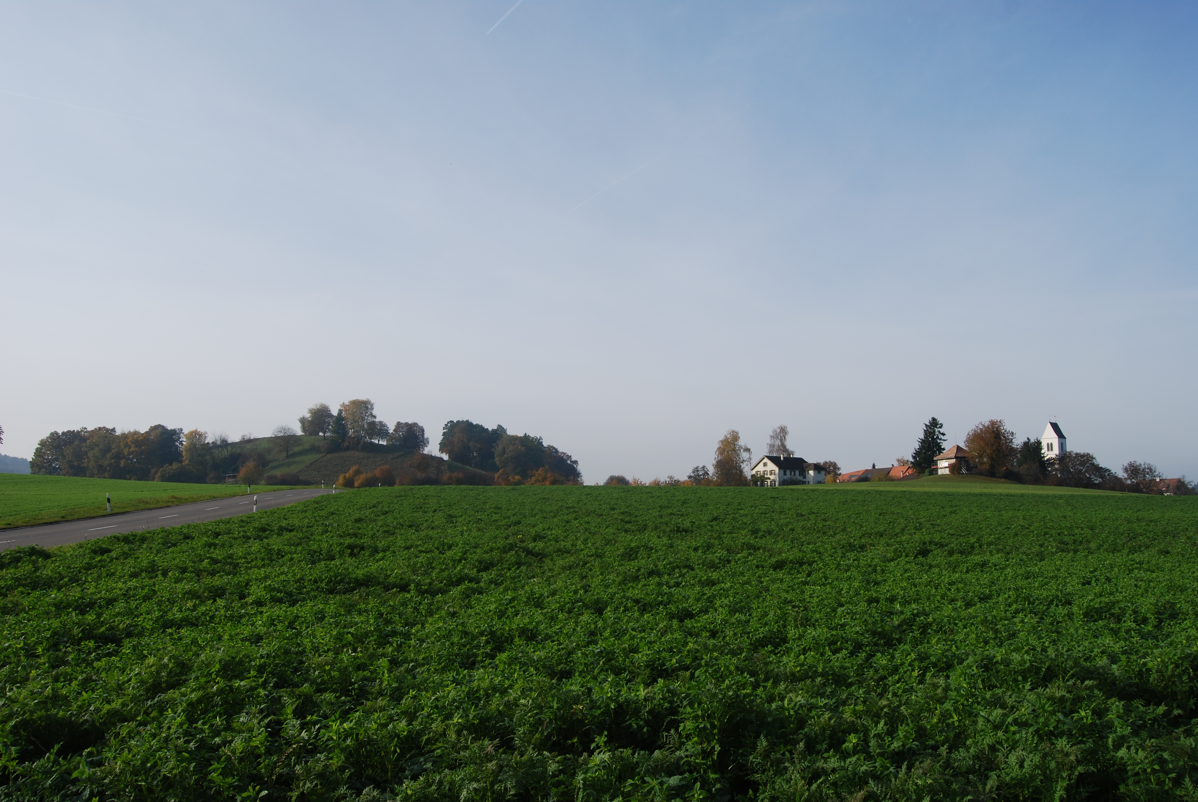 Dinhard, canton of Zürich, SwitzerlandEsperanto: Dinhard, Kantono Zuriko, Svislando